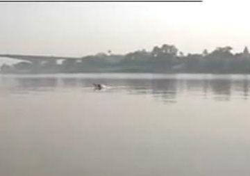 Rare sighting of Dolphin At Vikramshila Setu.